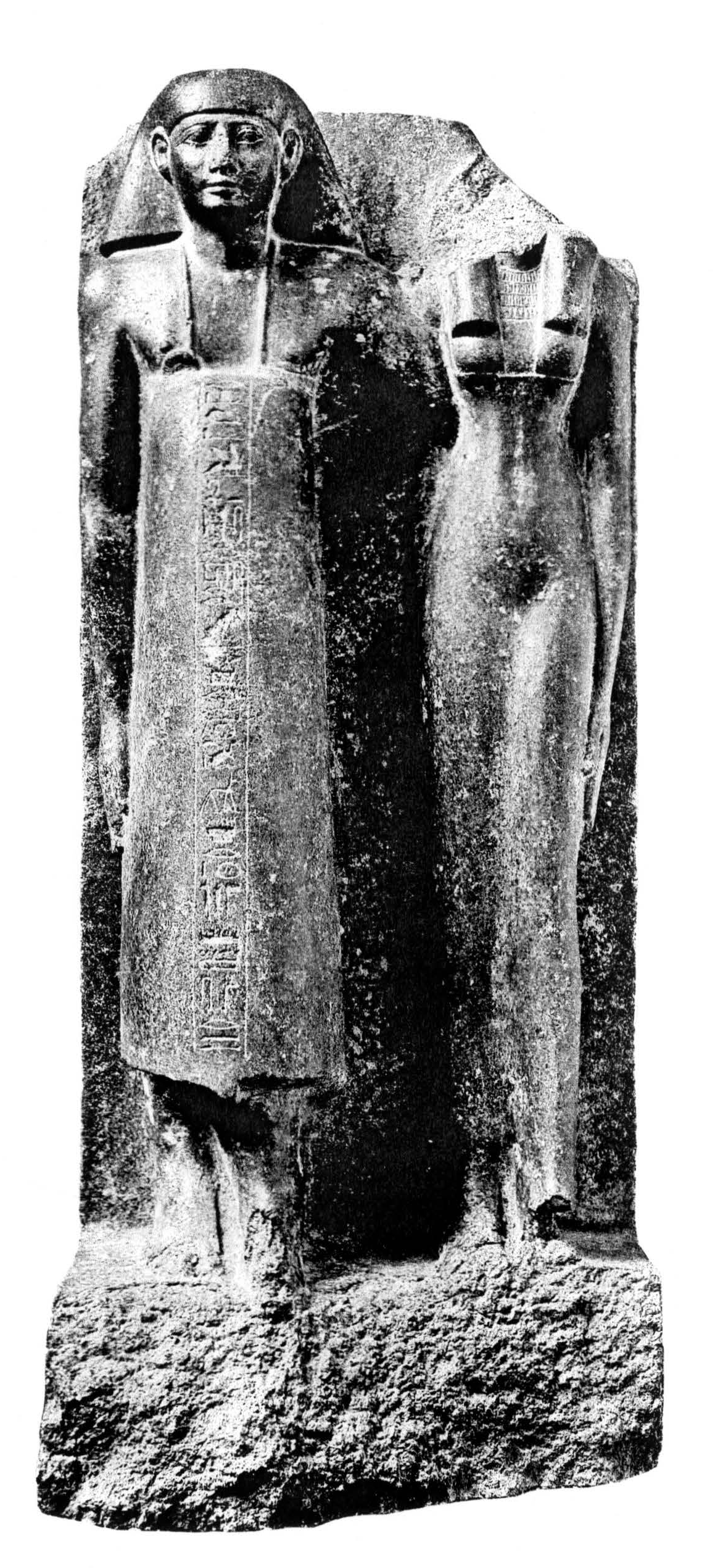 Group of Useramen and his wife Thuiu. Useramen was vizier under Hatshepsut and Thutmose III. Granite from Karnak, great temple cachette, reign of Thutmose III, 18th dynasty, New Kingdom. Cairo, Egyptian Museum CG 42118 (JE 37390).